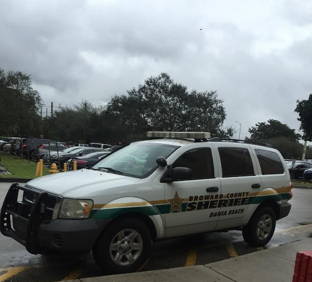 Broward County Sheriff Vehicle